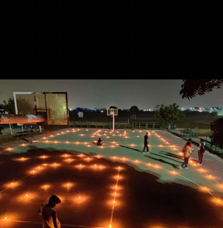 THIS IS THE SPORTS GROUND OF BBAU ON THE OCCASION OF DIWALI